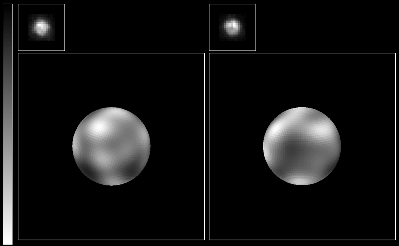 The never-before-seen surface of the distant Pluto is resolved in these NASA Hubble Space Telescope pictures, taken with the European Space Agency's (ESA) Faint Object Camera (FOC) aboard Hubble. Hubble imaged nearly the entire surface of Pluto, as it rotated through its 6.4-day period, in late June and early July 1994. These images, which were made in blue light, show that Pluto is an unusually complex object, with more large-scale contrast than any planet, except Earth. Pluto itself probably shows even more contrast and perhaps sharper boundaries between light and dark areas than is shown here, but Hubble's resolution (just like early telescopic views of Mars) tends to blur edges and blend together small features sitting inside larger ones. The two smaller inset pictures at the top are actual images from Hubble. North is up. Each square pixel (picture element) is more than 100 miles across. At this resolution, Hubble discerns roughly 12 major "regions" where the surface is either bright or dark. The larger images (bottom) are from a global map constructed through computer image processing performed on the Hubble data. The tile pattern is an artifact of the image enhancement technique. Opposite hemispheres of Pluto are seen in these two views. Some of the variations across Pluto's surface may be caused by topographic features such as basins, or fresh impact craters. However, most of the surface features unveiled by Hubble, including the prominent northern polar cap, are likely produced by the complex distribution of frosts that migrate across Pluto's surface with its orbital and seasonal cycles and chemical byproducts deposited out of Pluto's nitrogen-methane atmosphere. The picture was taken in blue light when Pluto was at a distance of 3 billion miles from Earth.